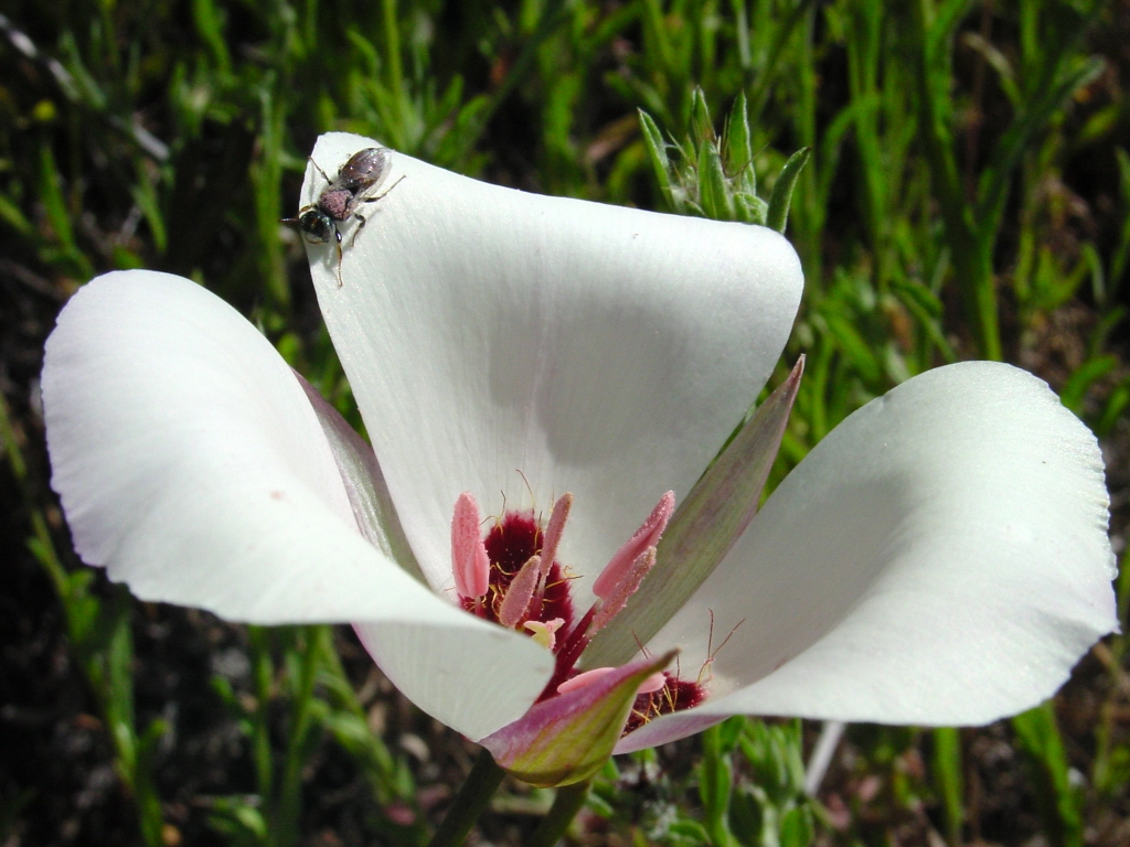 Description: Calochortus catalinae (Catalina Mariposa lily) flower, with pollinator, in Ventura County, CA Photo taken by: Noah Elhardt